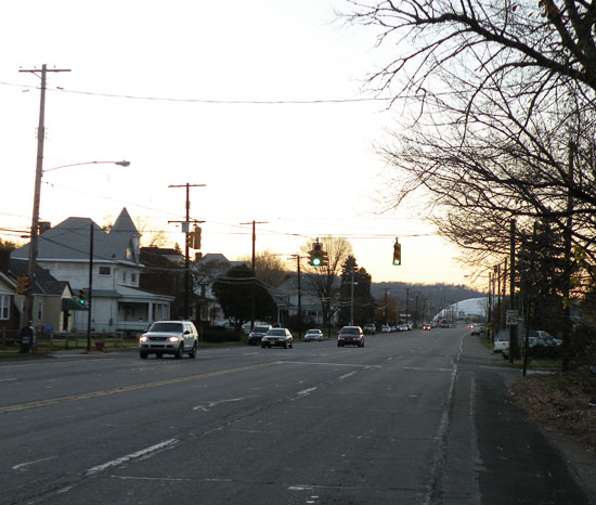 Picture of Grand Avenue on Neville Island, Pennsylvania, facing the Island Sports Center.